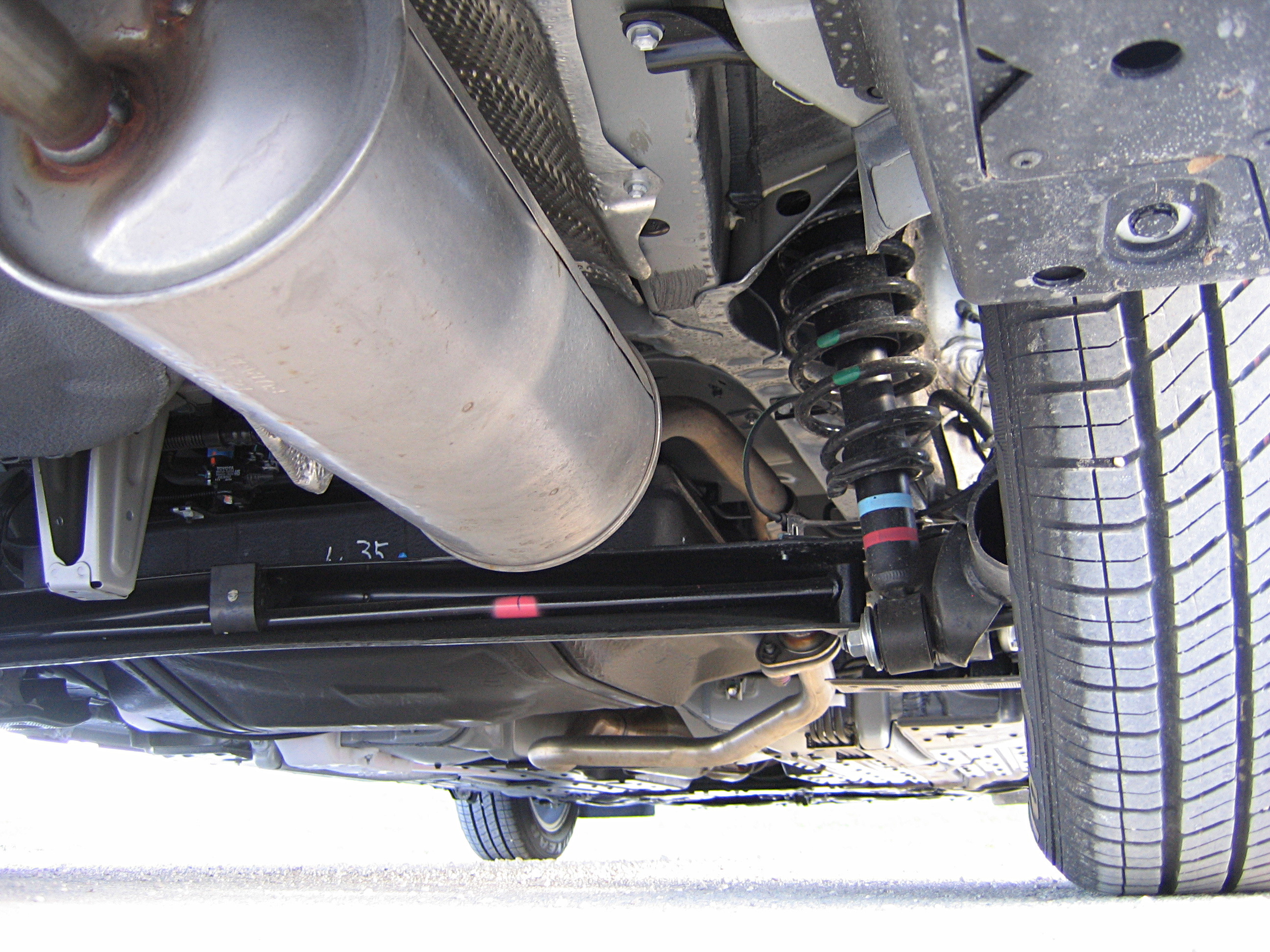 Prius Right Rear Underside